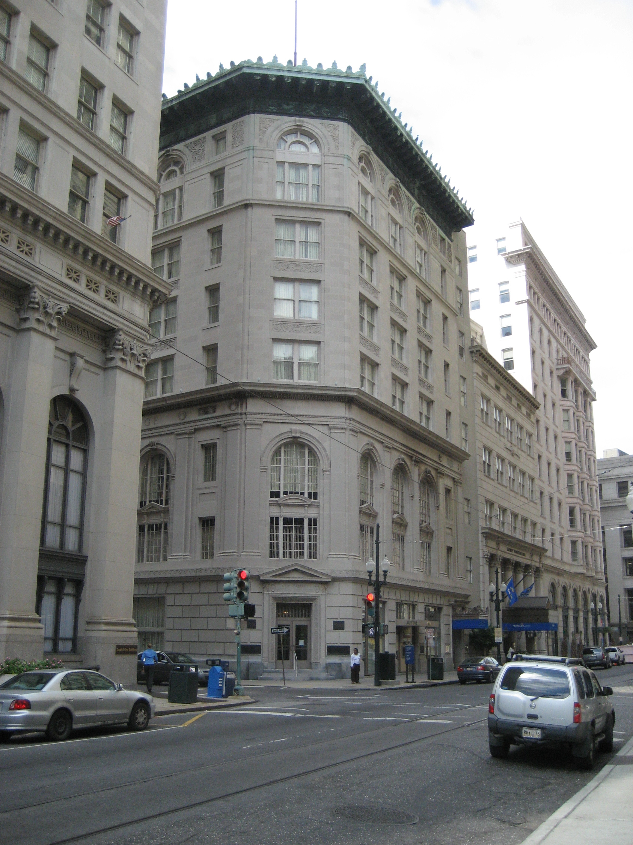 New Orleans: Carondelet Street, with view of the Cotton Exchange building on left just past cross-street (Common).